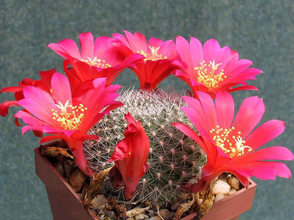 Rebutia wessneriana Bewer. var. wessneriana - cultivated plant from own collection.